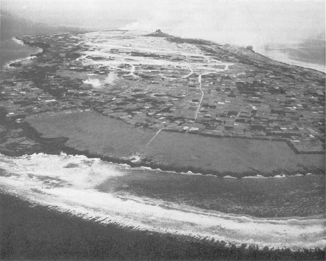 IE SHIMA'S AIRFIELD shows the scars of Japanese attempts to demolish the runways in 1945. Smoke from naval bombardment obscures Ie village.